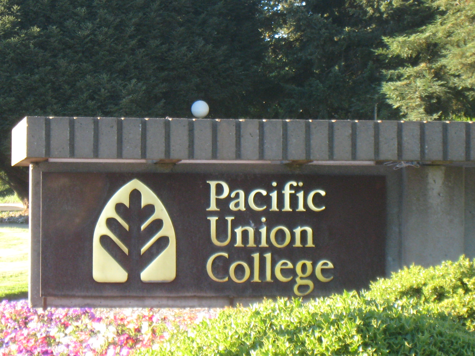 This is a photo of the main campus sign (Pacific Union College) I that I took with my own digital camera